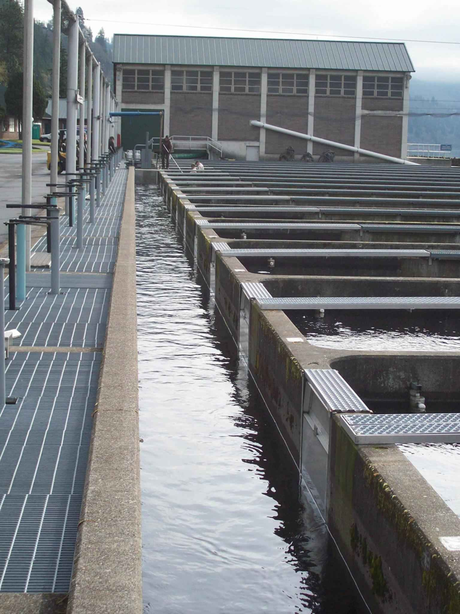 Image title: Fish hatcheries Image from Public domain images website